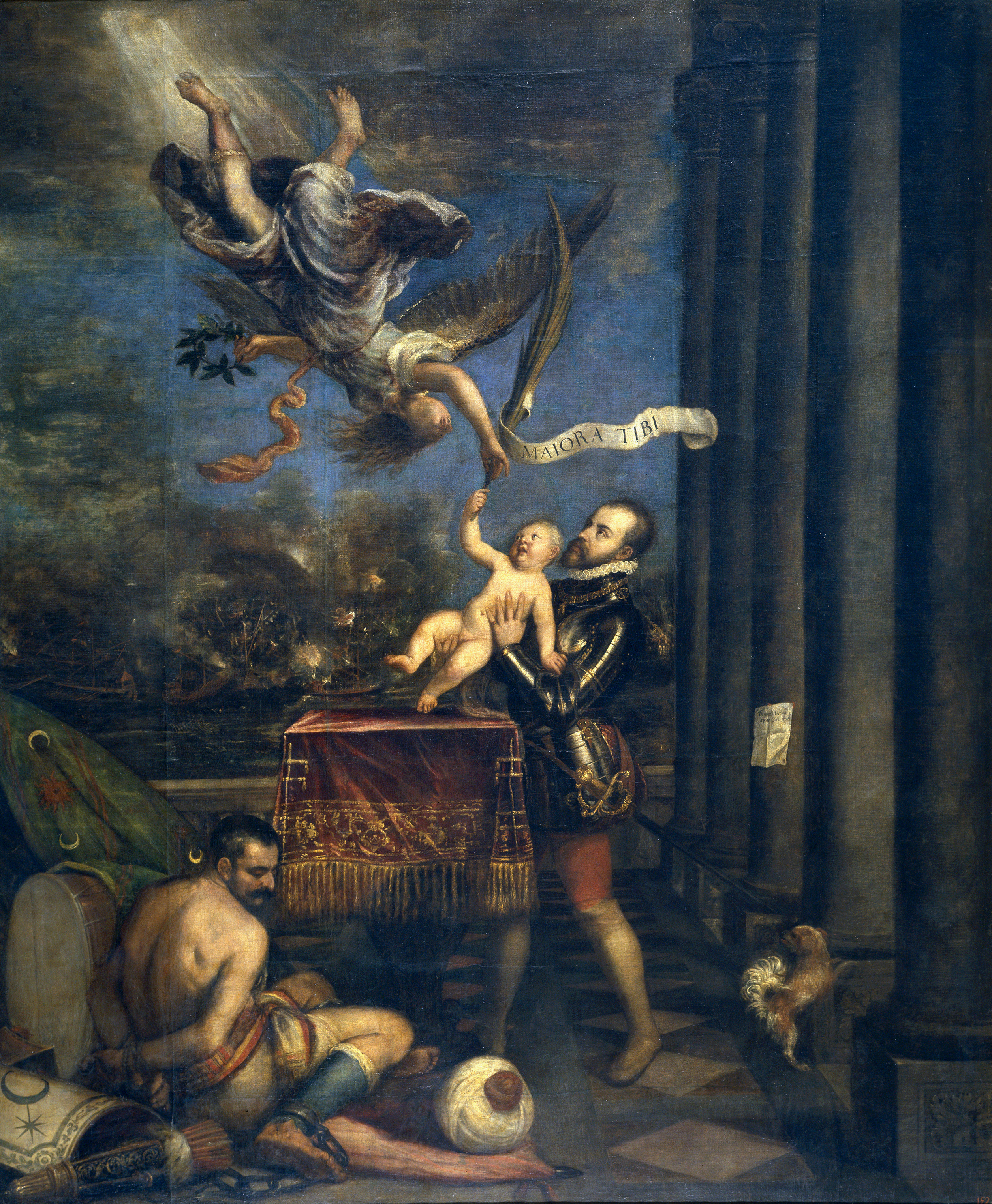 Titian, Following Victory at Lepanto, Felipe II offers Prince Fernando to Heaven, 1572-1575, oil on canvas, 335 × 274 cm Philip II offering Fernando to Victory. Museo del Prado, Madrid.Painted by Titian in his nineties, this allegorical work celebrates the victory of a Catholic coalition over the Ottoman Turks at the Battle of Lepanto in 1571 and the birth shortly afterwards of a male heir to King Philip II of Spain, Don Fernando, which were both seen as signs of God's favour. The battle is shown in the background, and a bound and defeated Turk at Philip's feet. An angel descends from heaven bearing a palm branch with a motto for Fernando, who is held up by Philip: "Majora tibi" (may you achieve greater deeds). Titian died in 1576 and Prince Fernando in 1578. Lepanto effectively ended Ottoman ambitions in the western Mediterranean. (Reference: Robert Enggass and Jonathan Brown, Italian and Spanish Art, 1600–1750: Sources and Documents, Evanston: IL: Northwestern University Press, 1992, ISBN 0810110652, p. 213.